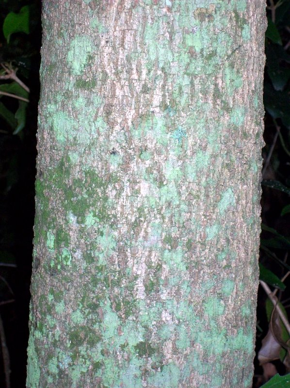 Austrobuxus swainii trunk, West Pennant Hills